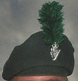 edited from larger photo in public domain